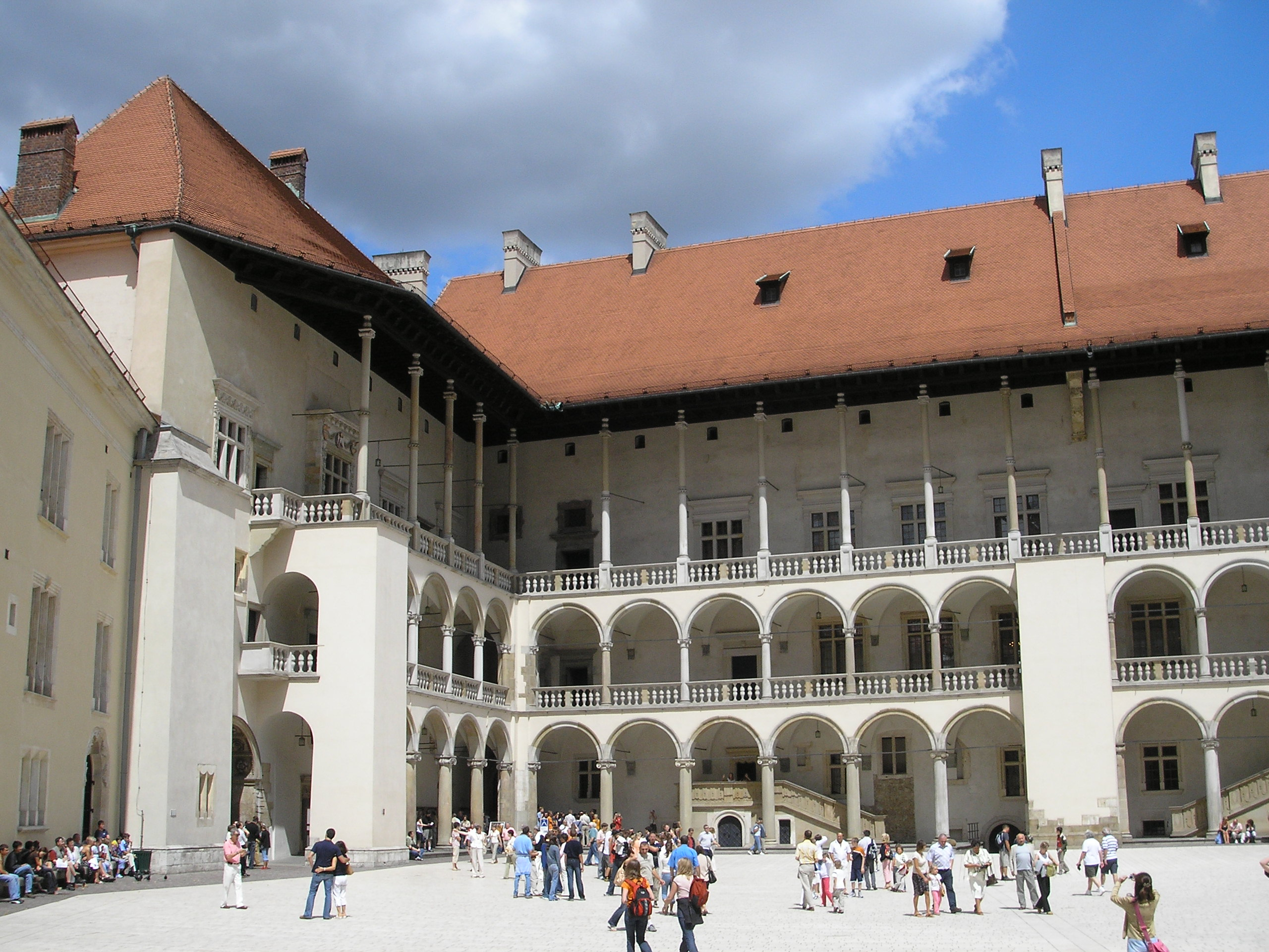 Courtyard of Wawel Royal Castle in Kraków.